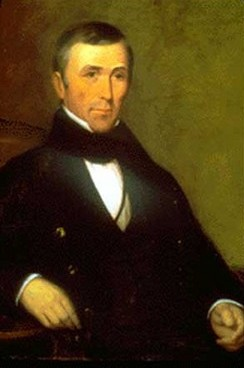 Posthumous portrait of Indiana Governor Ratliff Boon